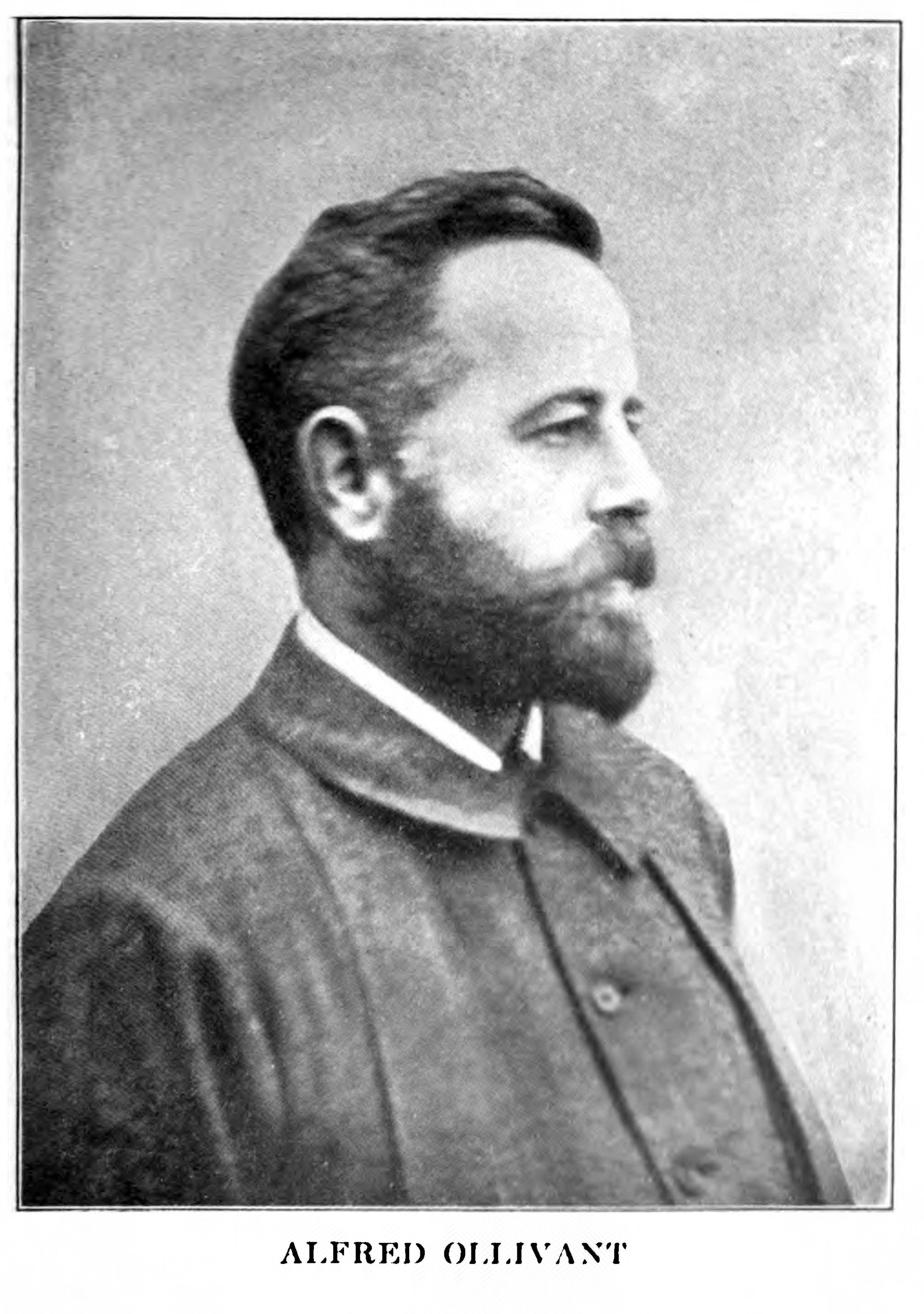 Alfred Ollivant (1874–1927) was an English novelist best known for his children's classic Bob, Son of Battle.